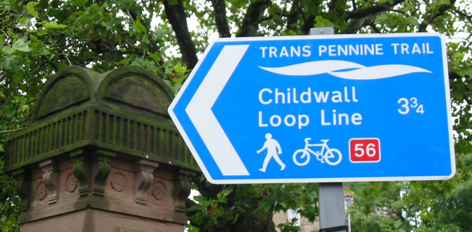 Liverpool